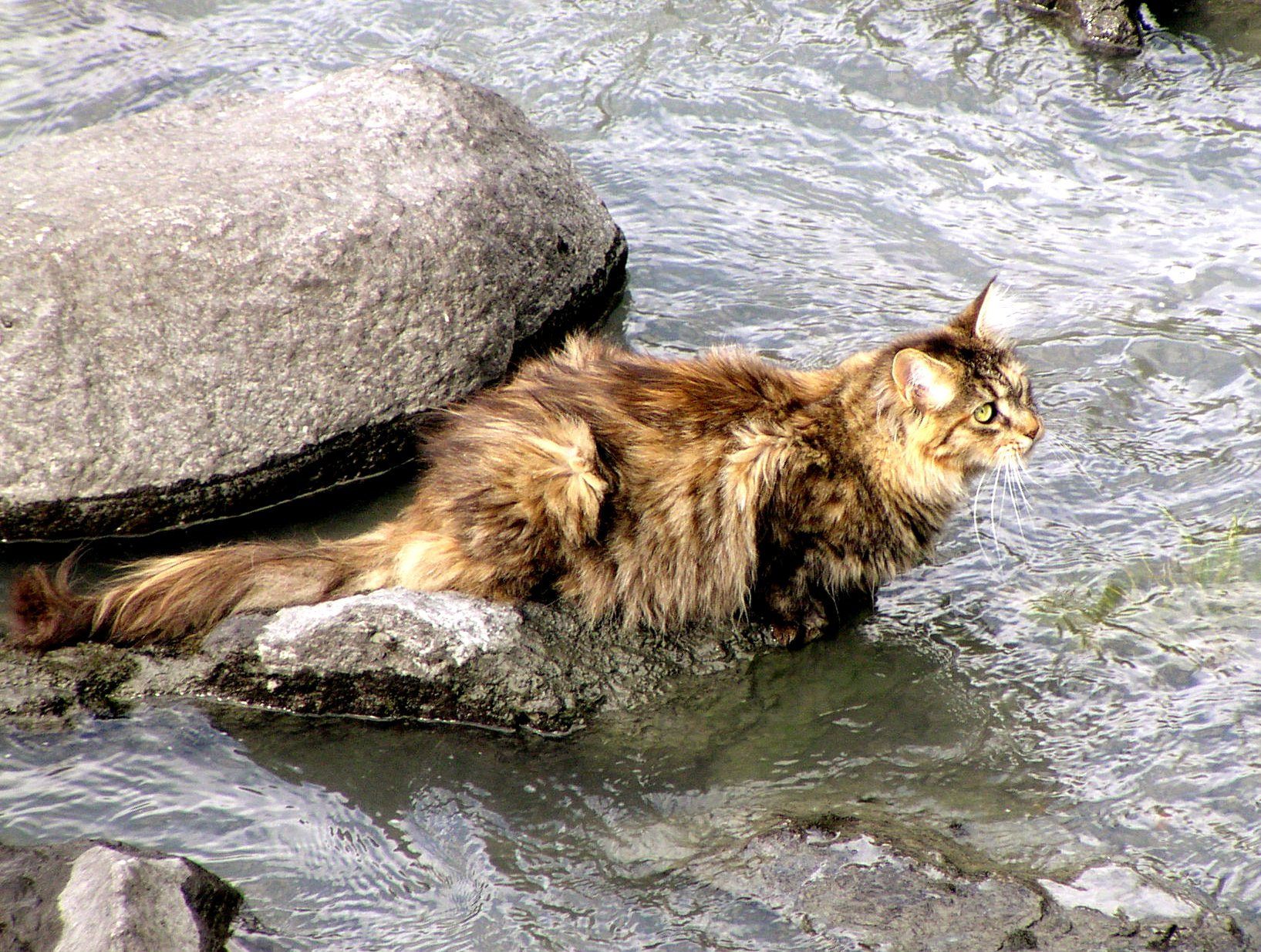 Captured this cat in Lom/Norway. For more information about this kind of cats click Norwegian Forest Cat or Norwegische Waldkatze. 'norwegian cat' On Black.